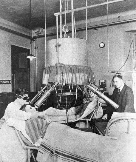 Treatment with the Finsen lamp in London in 1925.